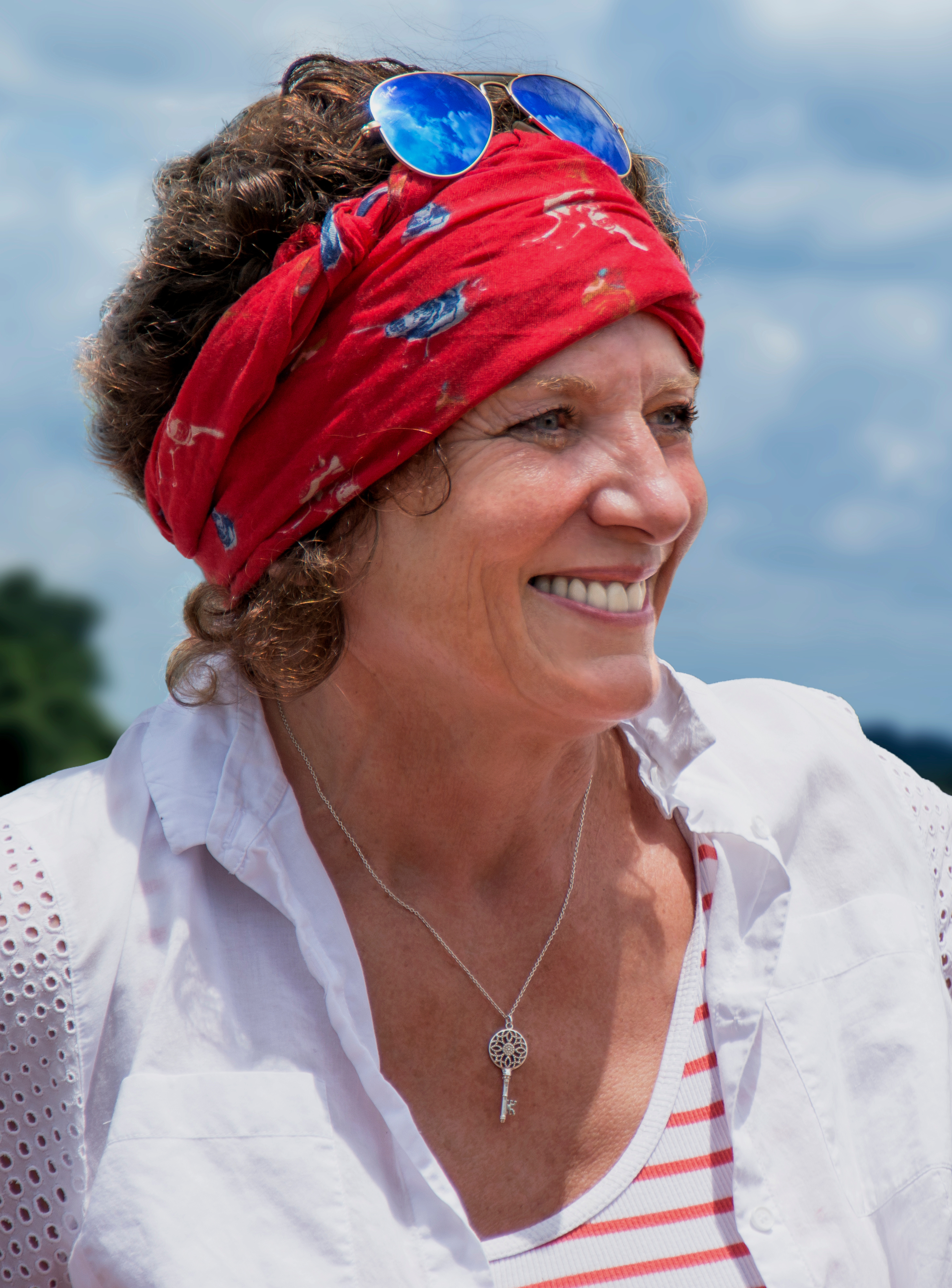 Margaret Joan Sinclair (born September 10, 1948), known by her married name Margaret Trudeau, is an author, actress, photographer and the former wife of Pierre Trudeau